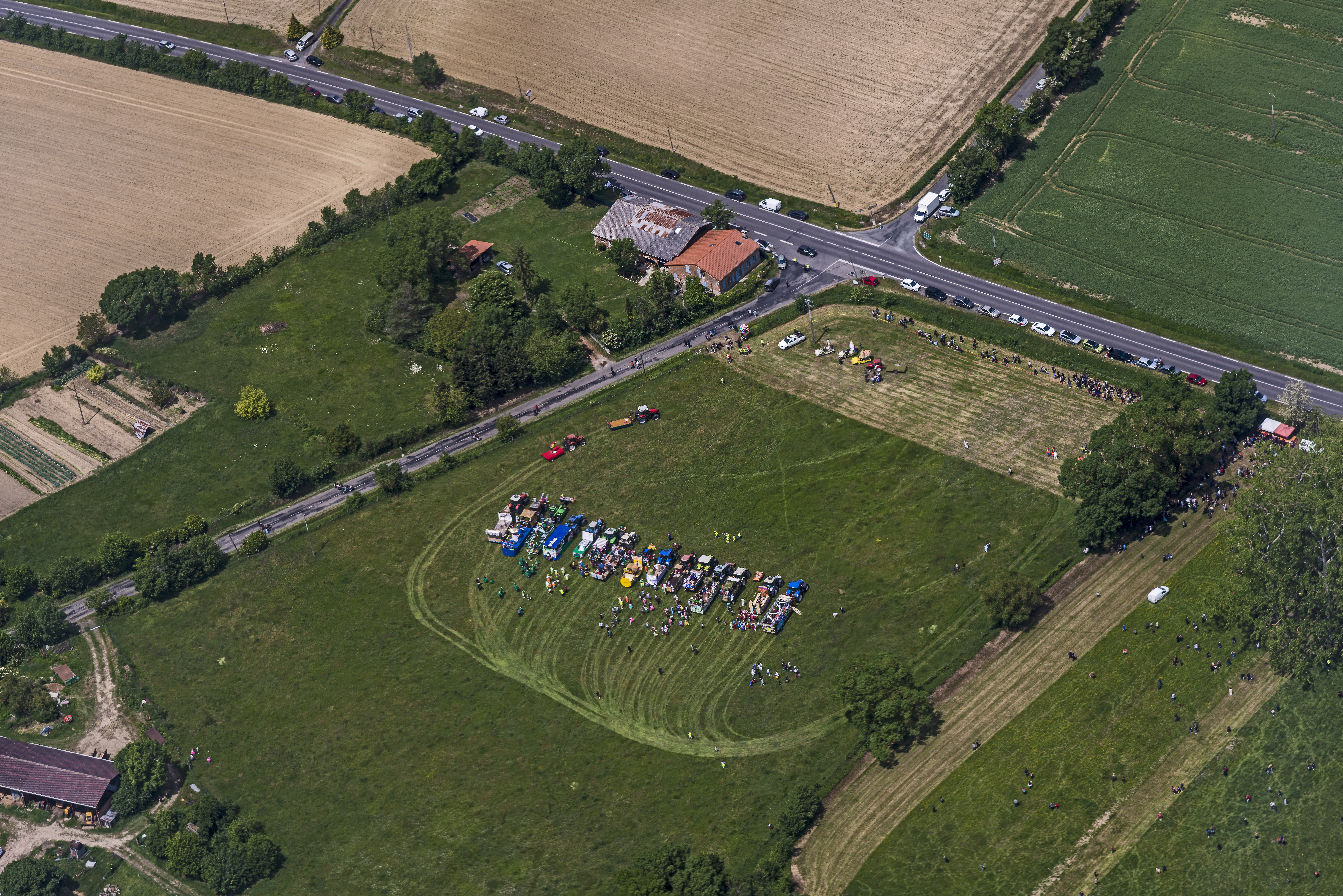 Bourg-Saint-Bernard, Haute-Garonne, France. Aerial view of the feast of Pré de la Fadaise; 2016 edition.